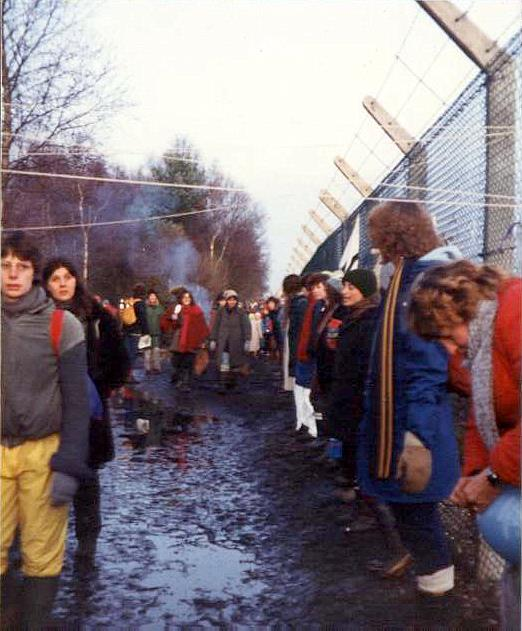 Embracing the base, Greenham Common December 1982, near to Greenham, West Berkshire, Great Britain. At noon on 12 December 1982, 30,000 women held hands around the six mile perimeter fence of the former USAF base, in protest against the UK government's decision to site American cruise missiles there. The installation went ahead but so did the protest - for nineteen years women maintained their presence at the Greenham Common peace camp. [NB I cannot locate this picture precisely].